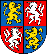 Coat of arms of Vrútky, Slovakia.